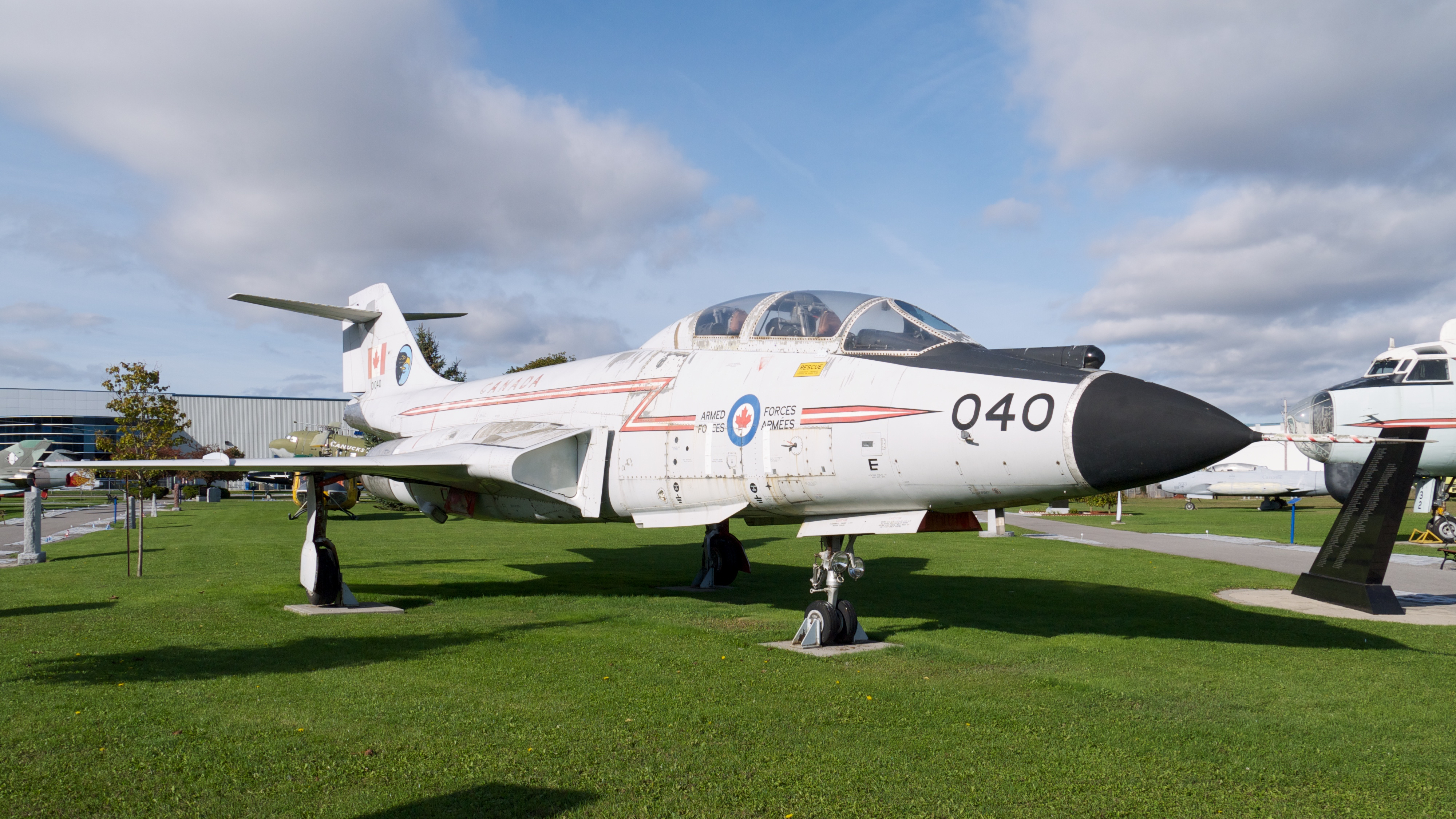 McDonnell CF-101B Voodoo (#101040) at National Air Force Museum of Canada.